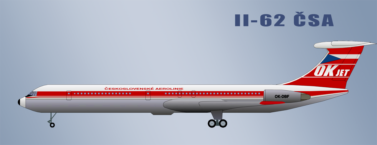 Ilyushin Il-62 in ČSA livery